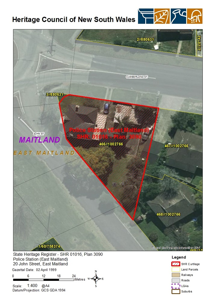 East Maitland Police Station: SHR Plan no 3090